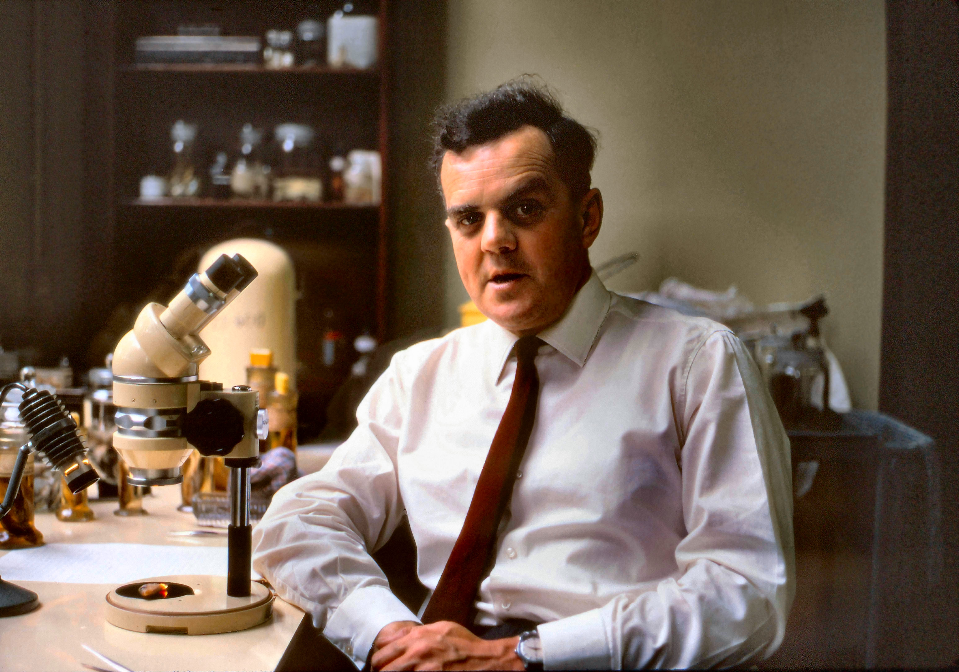 Portrait of influential British ichthyologist P. Humphry Greenwood (1927-1995), photographed 30 Sep 1968 at his bench in the Fish Section, British Museum (Natural History), London. Note his Wild M5 binocular dissecting microscope with an African cichlid fish under it; cichlids were among Greenwood's chief specialties.